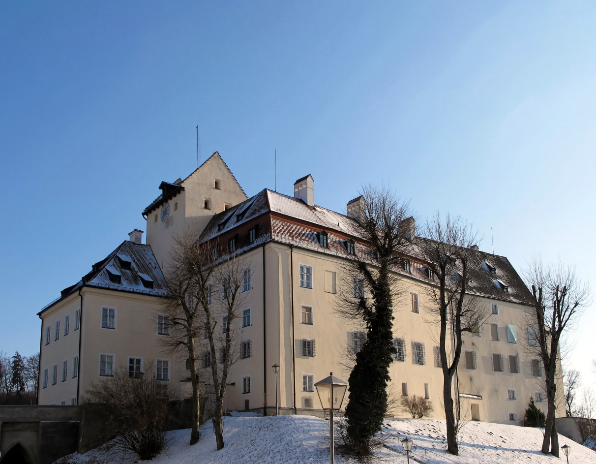 village "Seefeld in Oberbayern": castle "Schloss Seefeld"